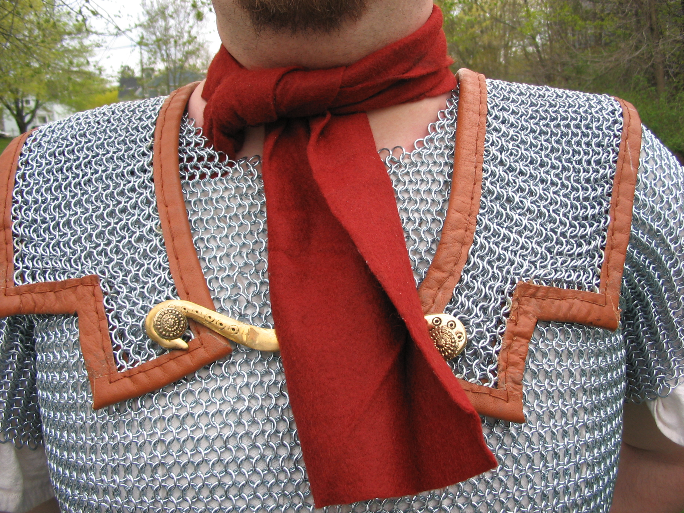 A reproduction wool focale. Picture of User:Caliga10, taken by his wife, who agreed to release photo under GFDL.